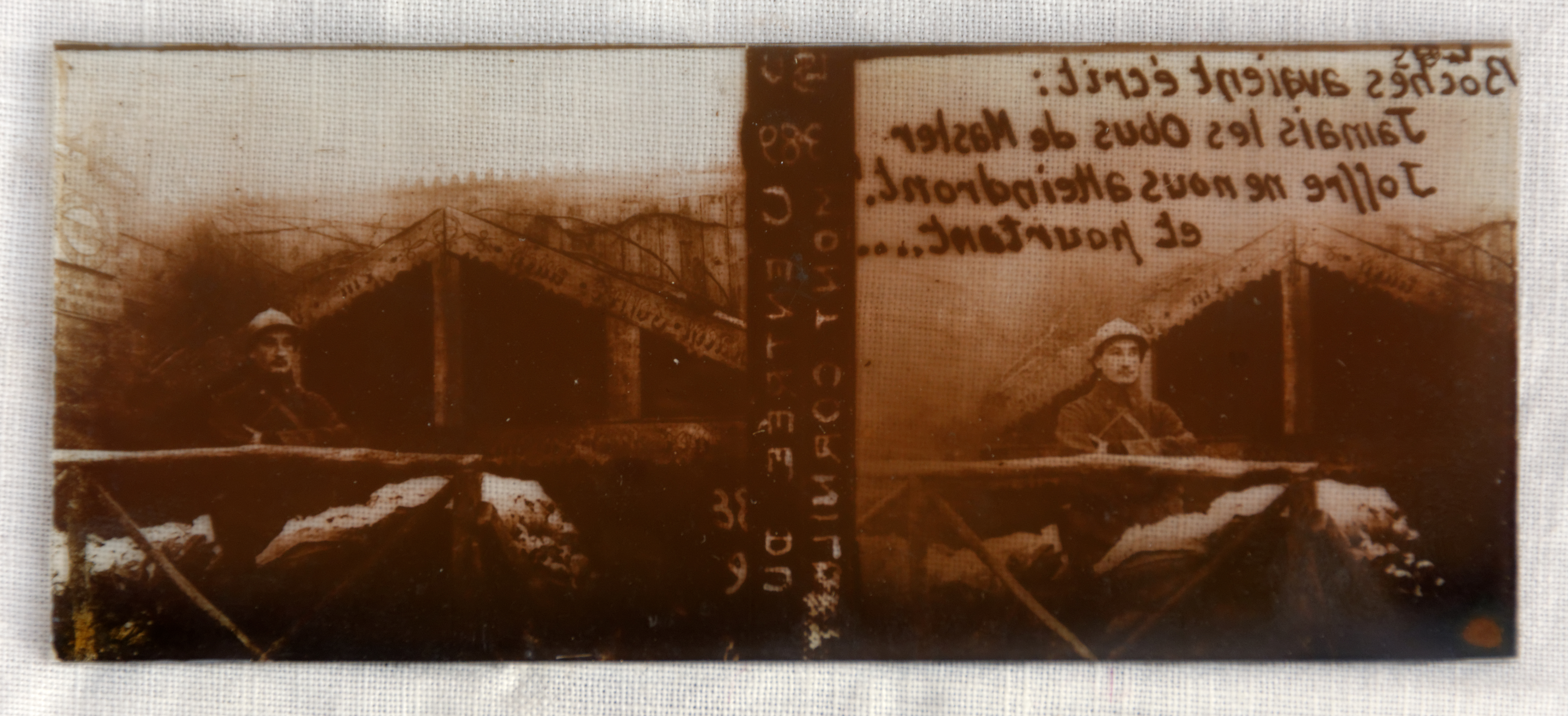 Personality rights warningAlthough this work is freely licensed or in the public domain, the person(s) shown may have rights that legally restrict certain re-uses unless those depicted consent to such uses. In these cases, a model release or other evidence of consent could protect you from infringement claims.